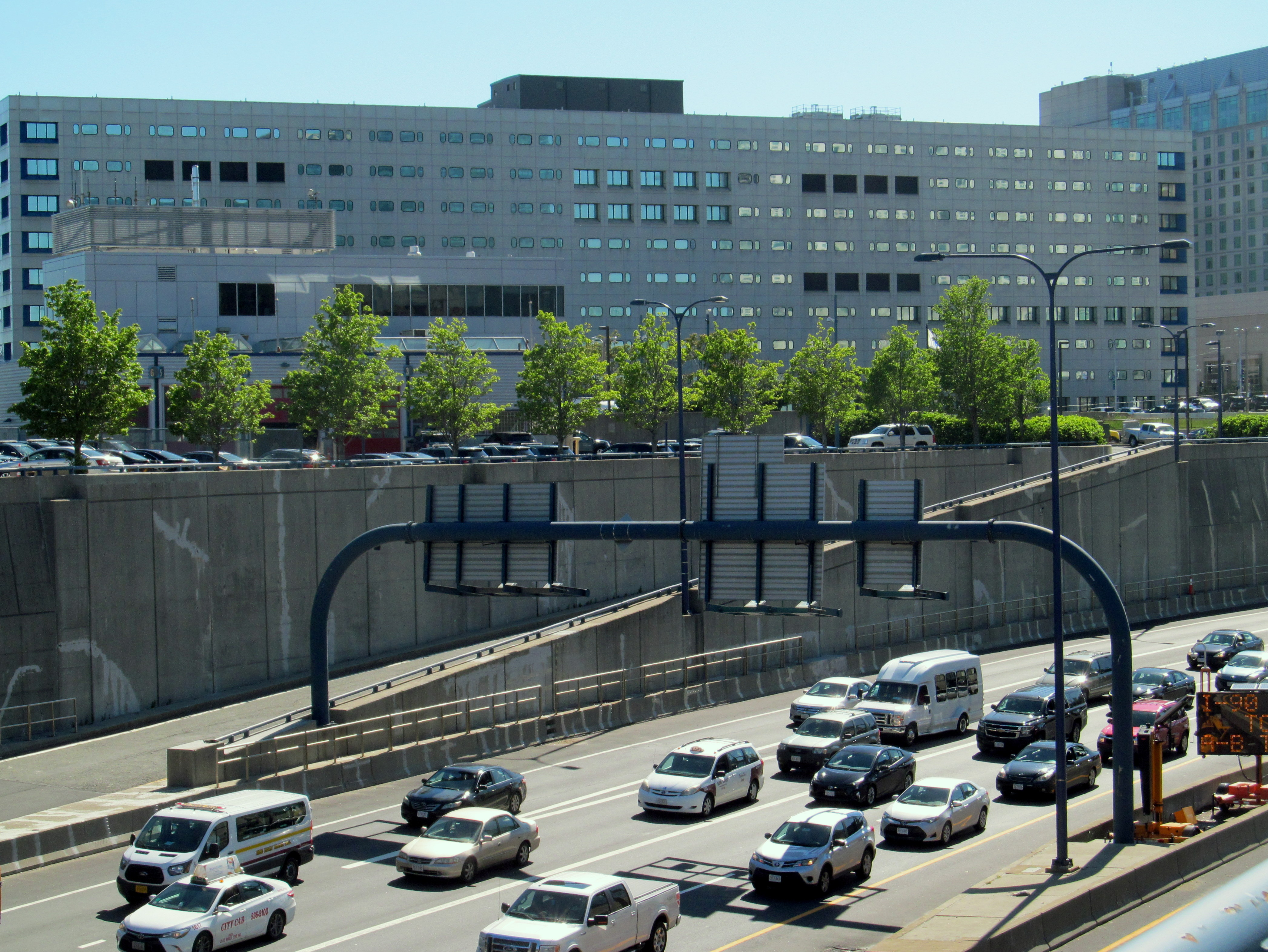 A non-public on-ramp to I-90 eastbound, just before the entrance to the Ted Williams Tunnel, photographed in June 2017. The ramp is used only by the State Police, though it has been proposed as a way to speed the Silver Line journey to Logan Airport.